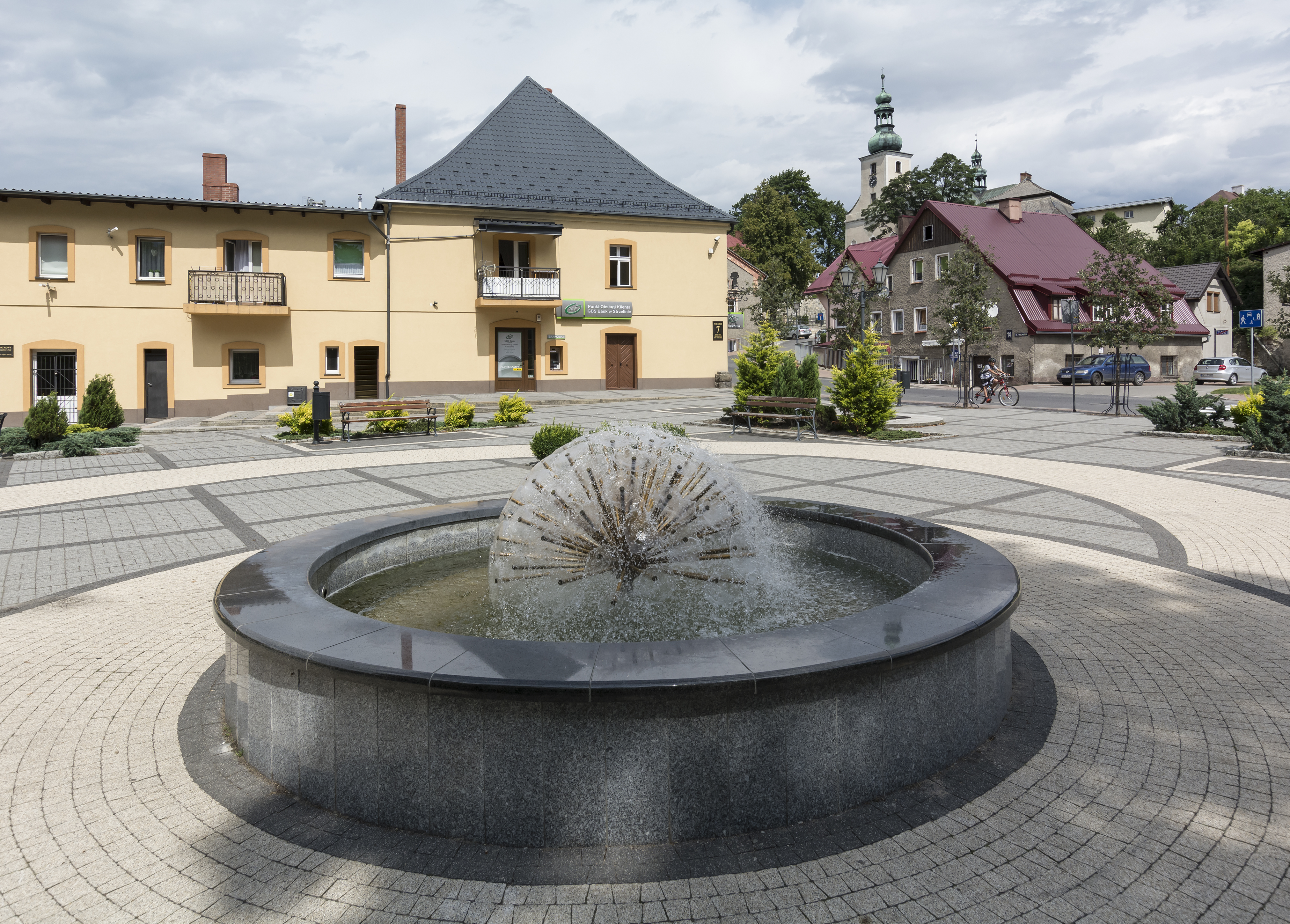 Fountain in Szczytna